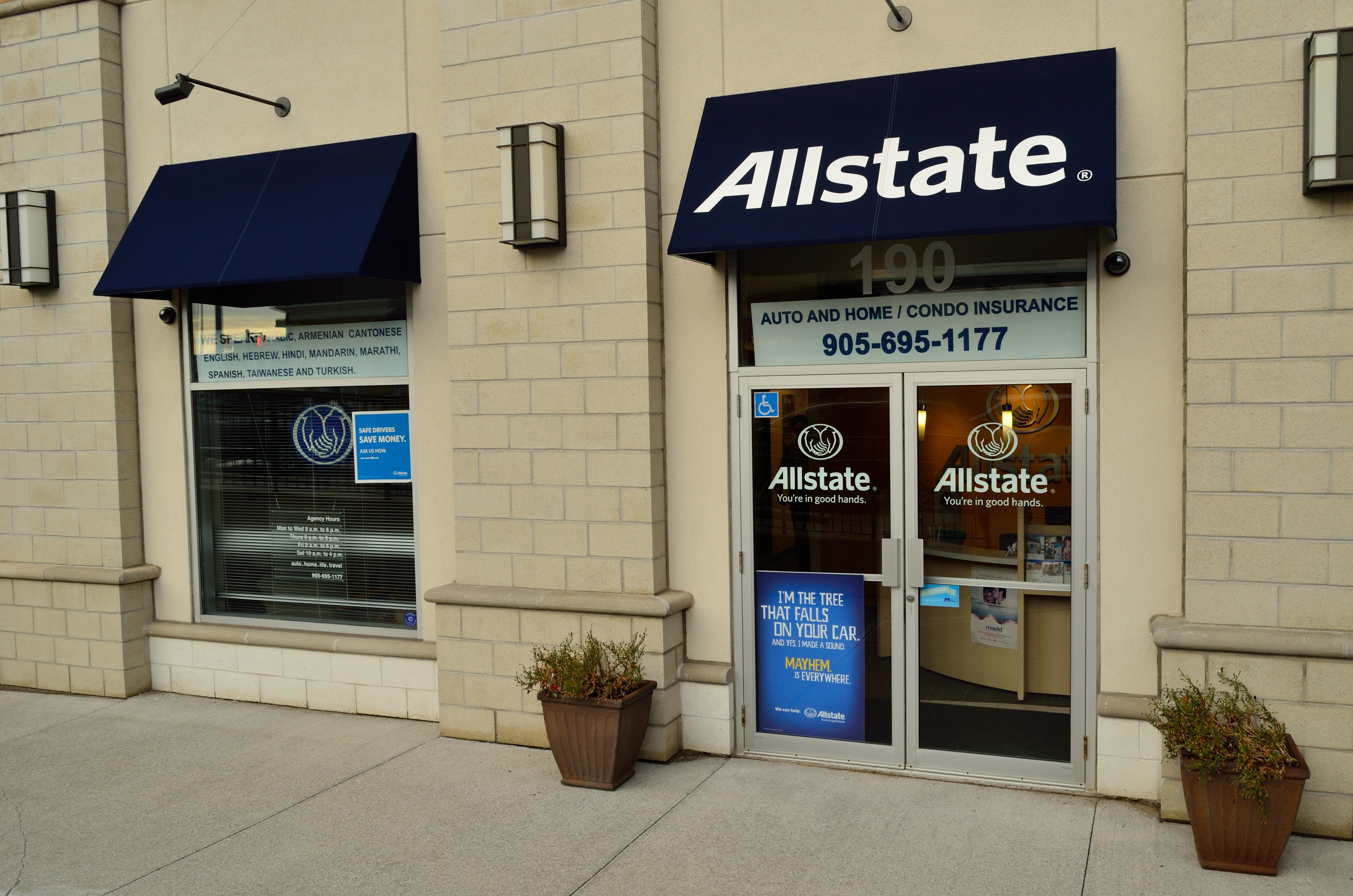 Allstate Insurance - Address: 11 Disera Drive, Unit 190, Thornhill, ON